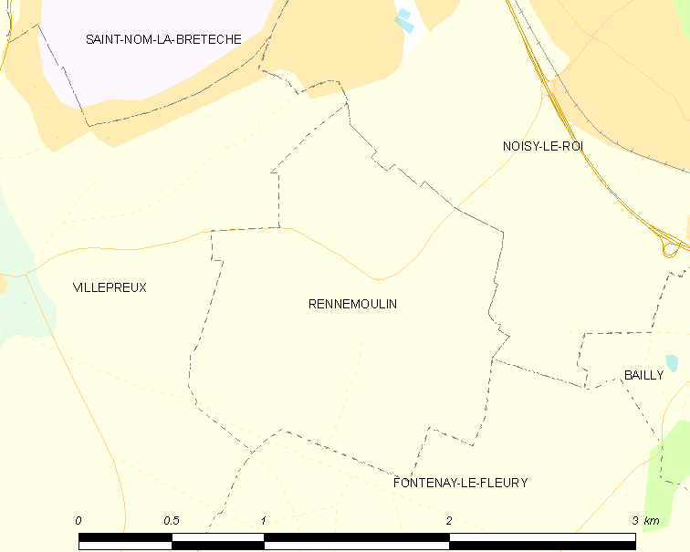 Map of French municipality Rennemoulin